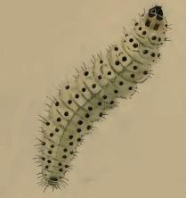 Stainton’s Natural History of the Tineina (1855–1873): Epermenia aequidentellus